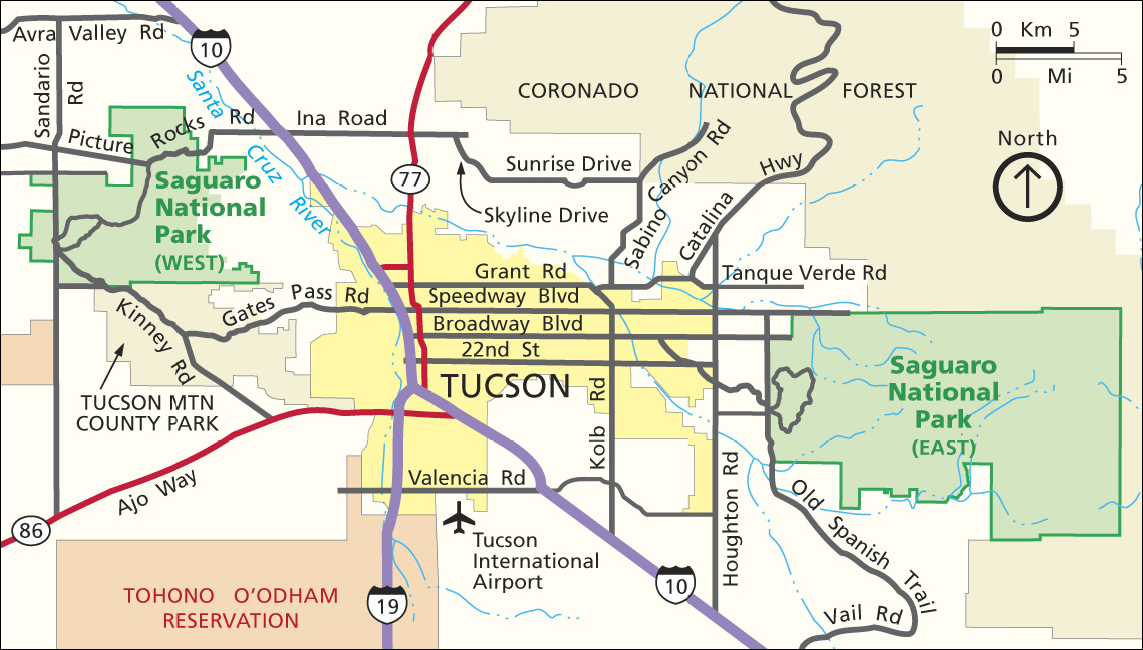 Situation map of Saguaro National Park, Arizona, United States.